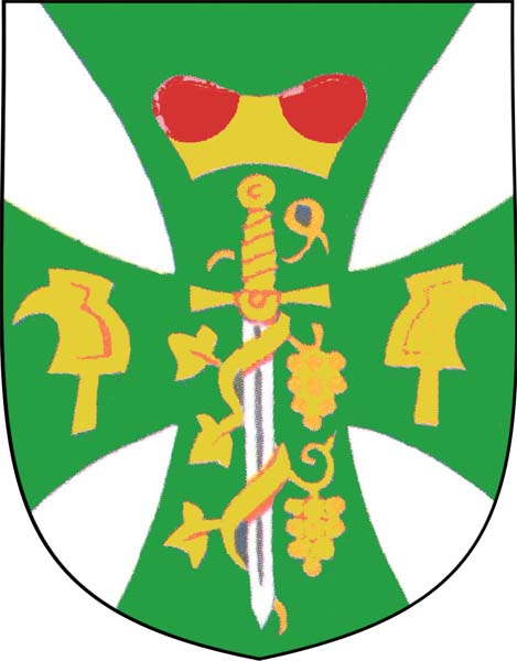 Municipal coat of arms of Domanín village, Hodonín District, Czech Republic.